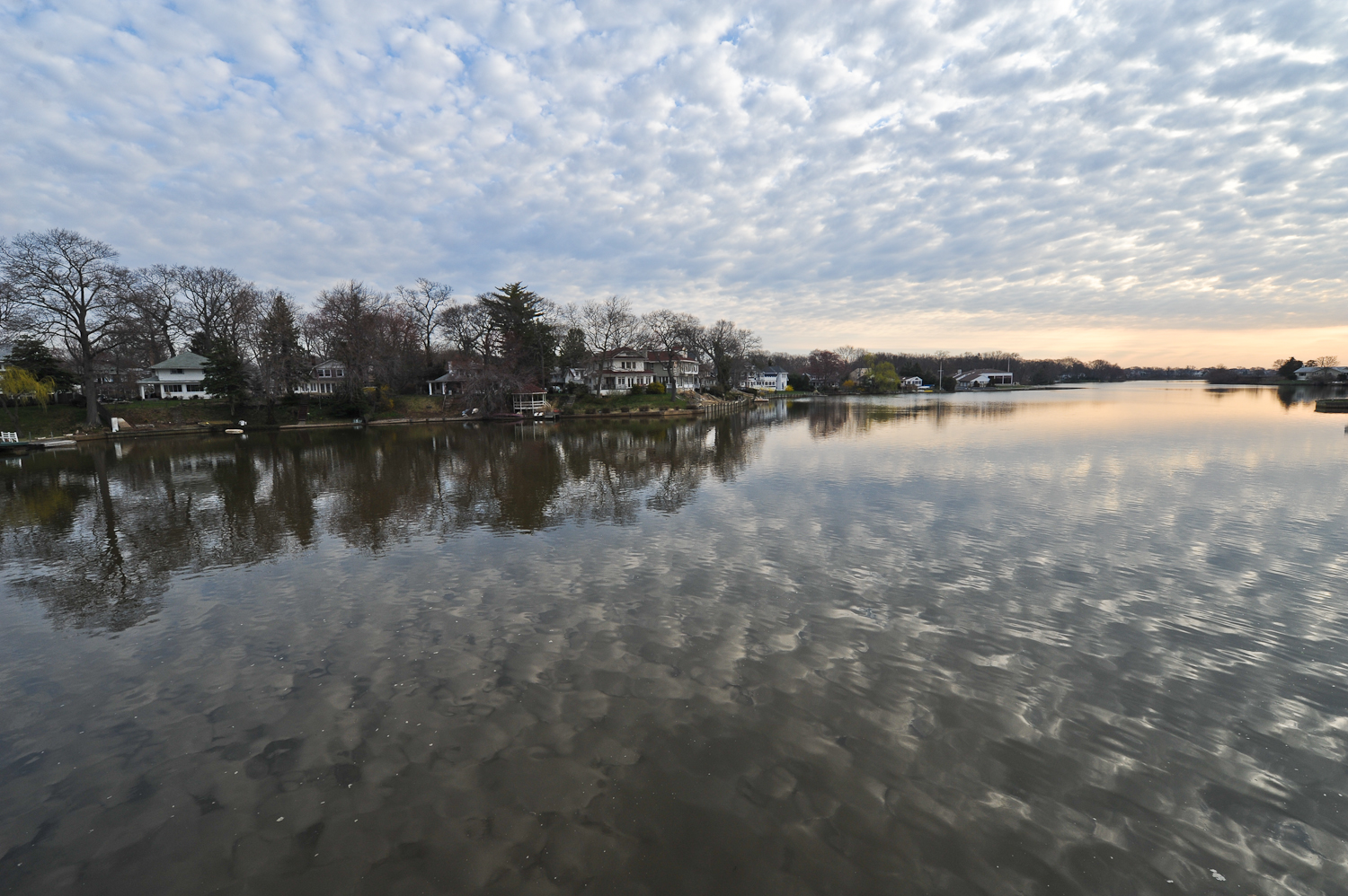 Photo of Deal Lake western side in Asbury Park, New Jersey